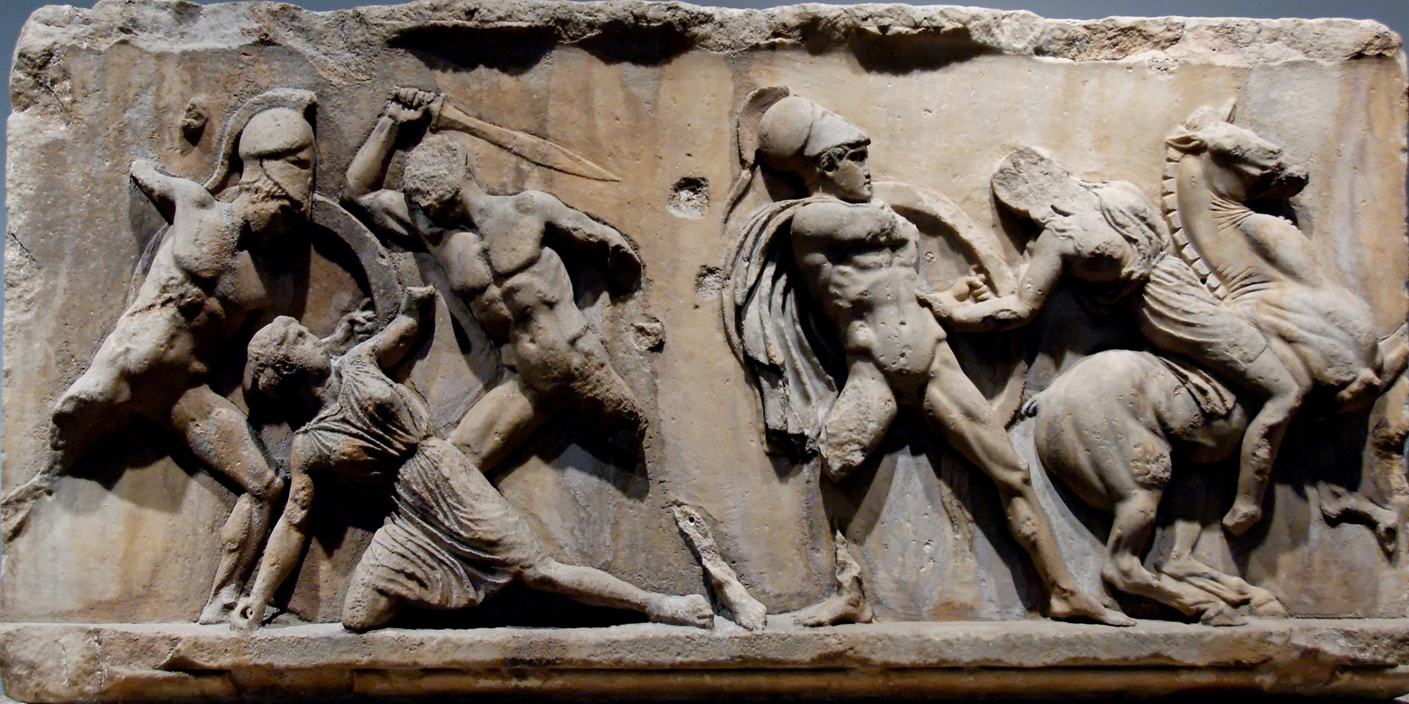 Amazonomachy. Block from the frieze running around the top of the podium of the Mausoleum at Halicarnassos.